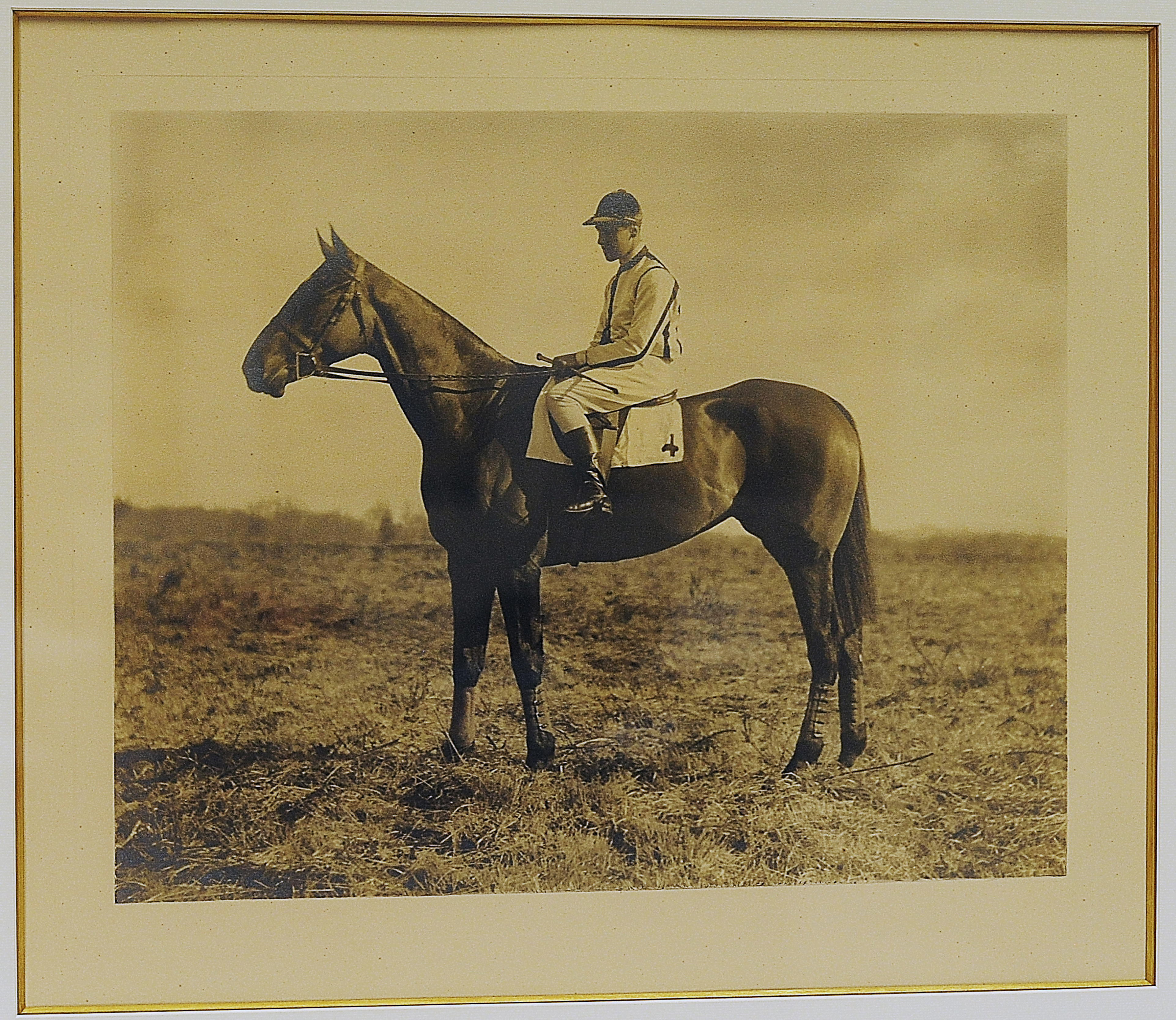 Racehorse Goliath, owner Harry La Montange